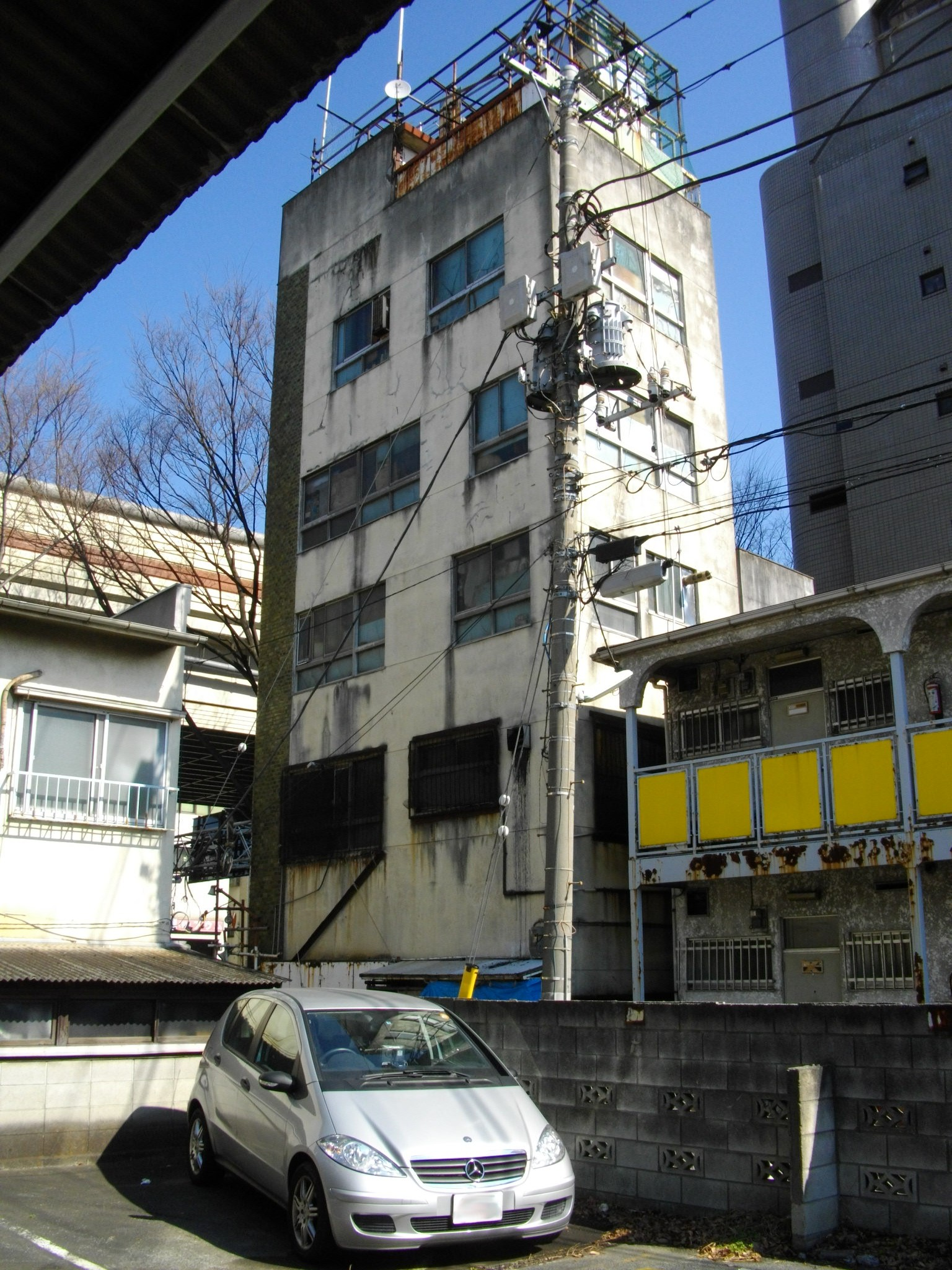 Gendai-Sha(Kakuroukyo Hazama-ha Headquarters). Kakuroukyo Hazama-ha is literally "Revolutionary Workers Association Hazama Faction". It is a Japanese ultra-left organization.